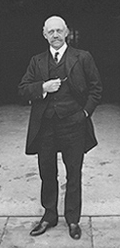 Photograph of William Willett, builder, outdoorsman, and inventor of daylight saving time. Handwritten below the original print is "Mr. Wm. Willett. Author of the Daylight Bills of 1908 and 1909. 1909. J. Benjamin Stone"